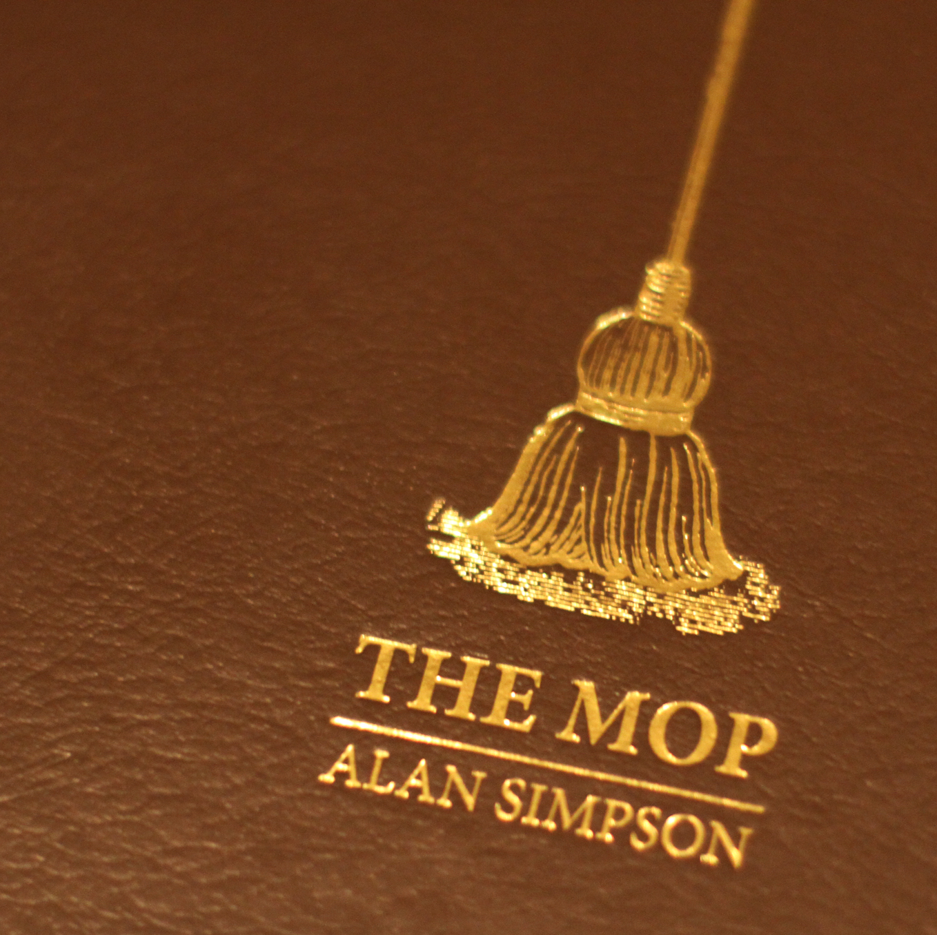 The Mop, a novel by Alan Simpson, first edition printing comes hardbound in a kivar cover with a gold foil stamp. The run is limited to 750 copies, 250 of which are in a custom made box set.